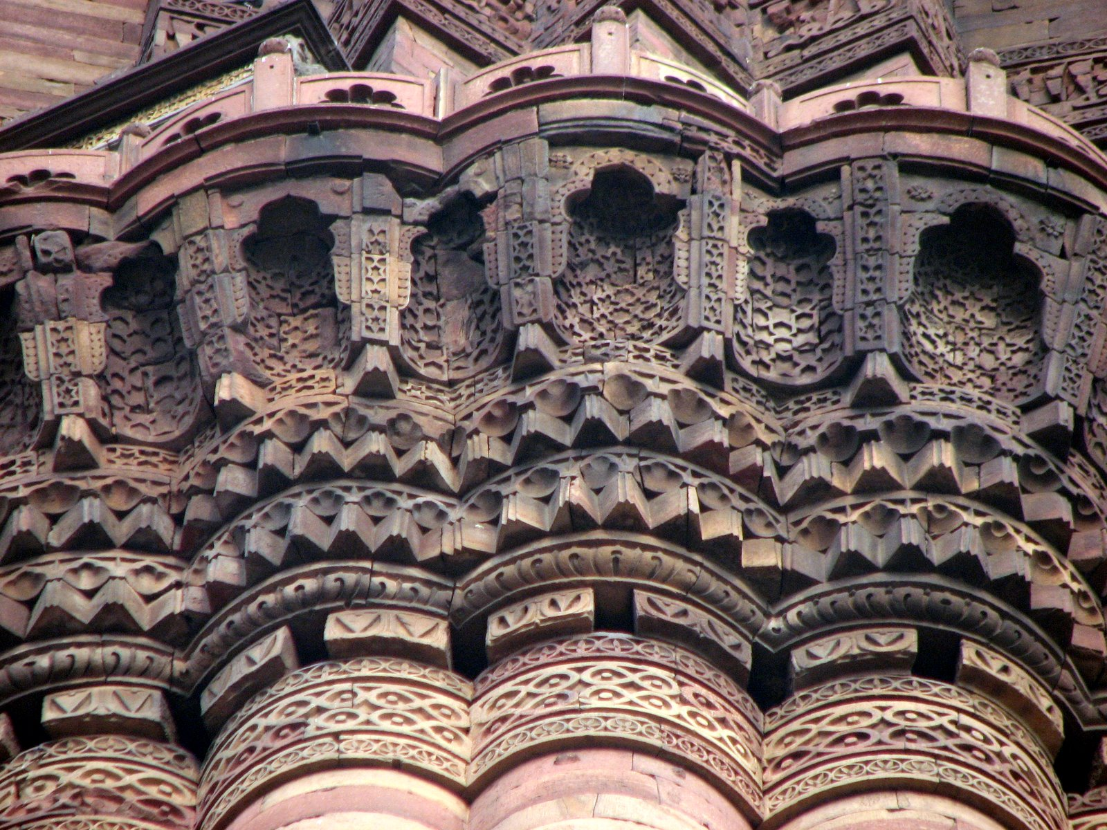 Details of Muqarnas corbel balcony, Qutb Minar.